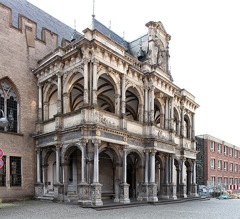 Entrance of the old town hall, Cologne